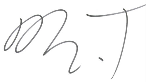 A